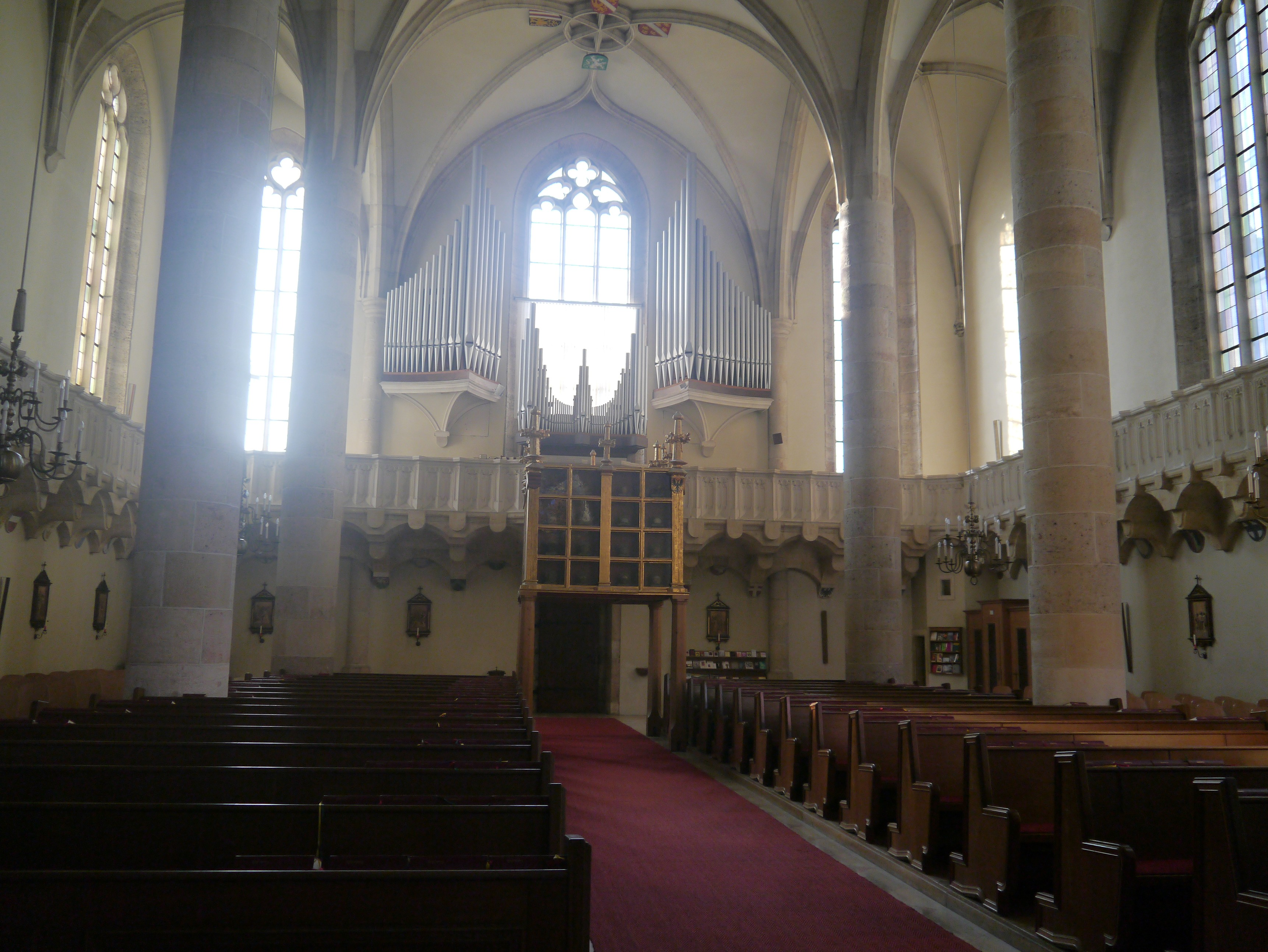 Nave of the Cathedral St. George, Wiener Neustadt